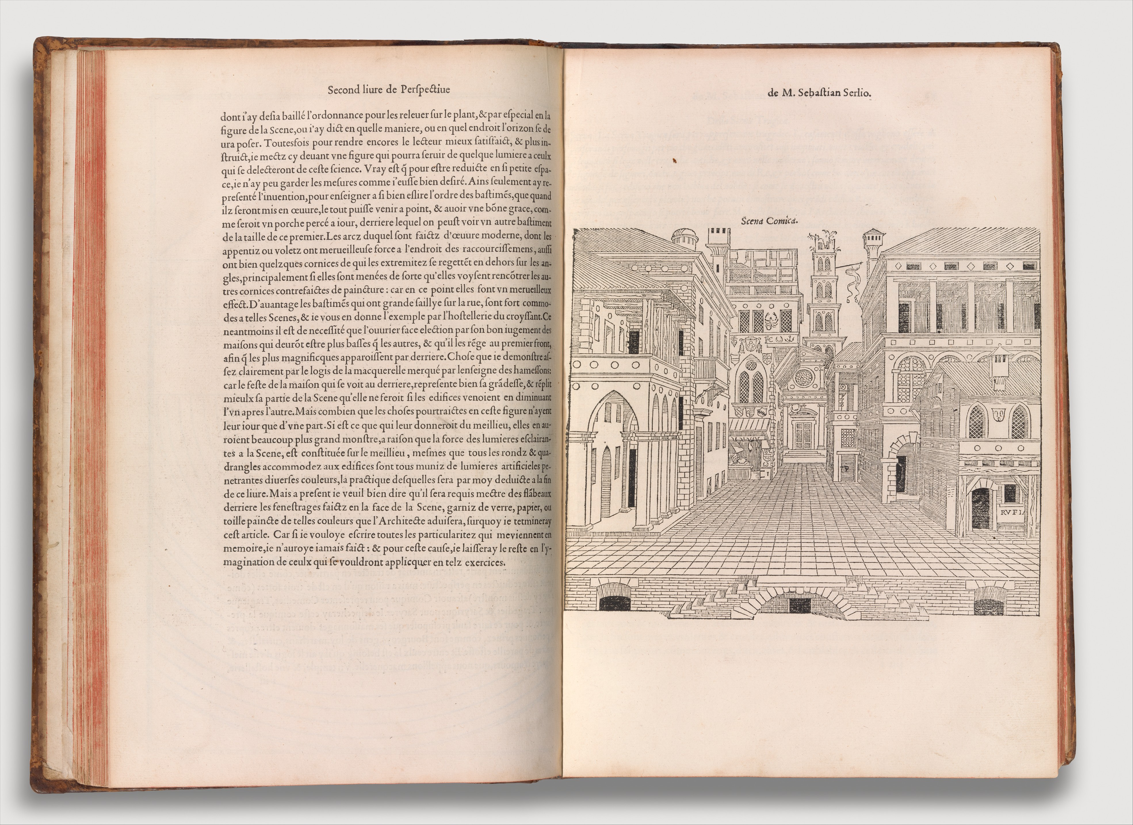 Book Ornament & Architecture; Books